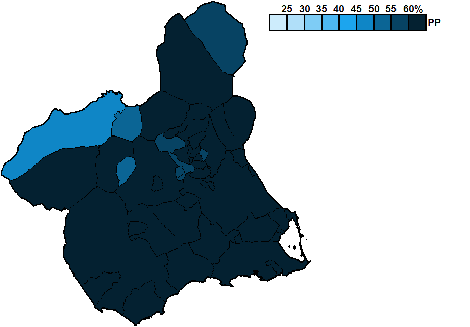 Most-voted party in Murcia municipalities, showing vote share obtained, in the Spanish general election, 2011.